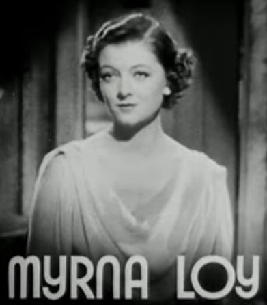 Cropped screenshot of Myrna Loy from the trailer for the film Petticoat Fever (1936).